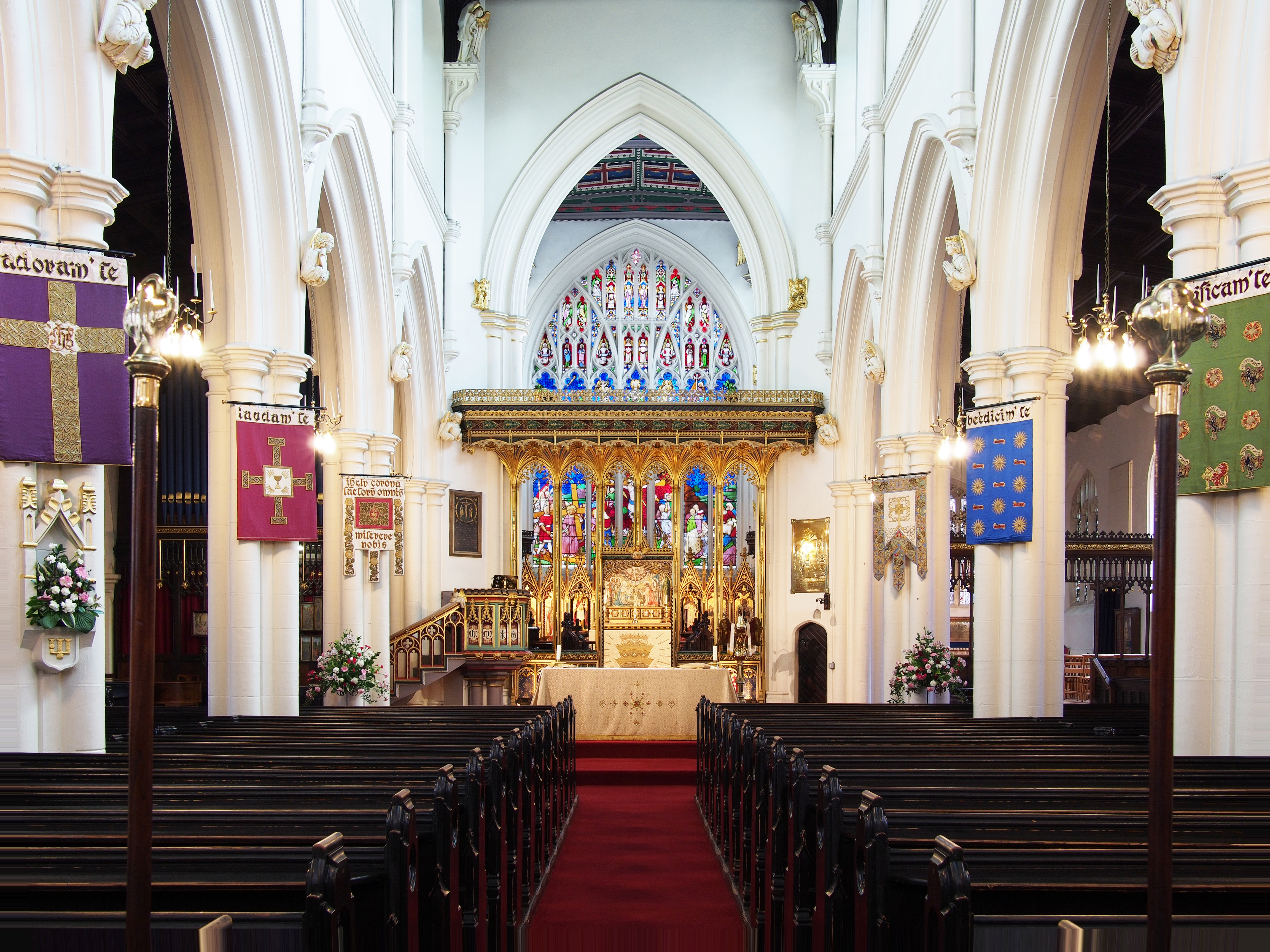 Inside All Saints' parish church, Wigan, looking east to the altar